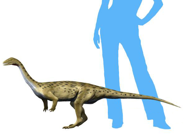 Life reconstruction of Saturnalia tupiniquim